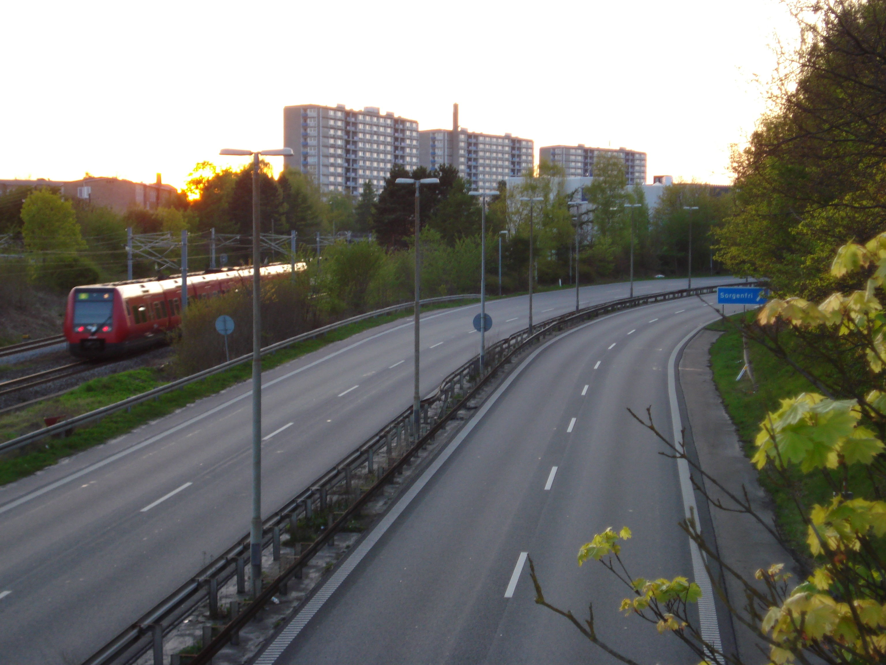 Sunset at Lyngby Omfartsvej at the exit to Sorgenfri with S-train